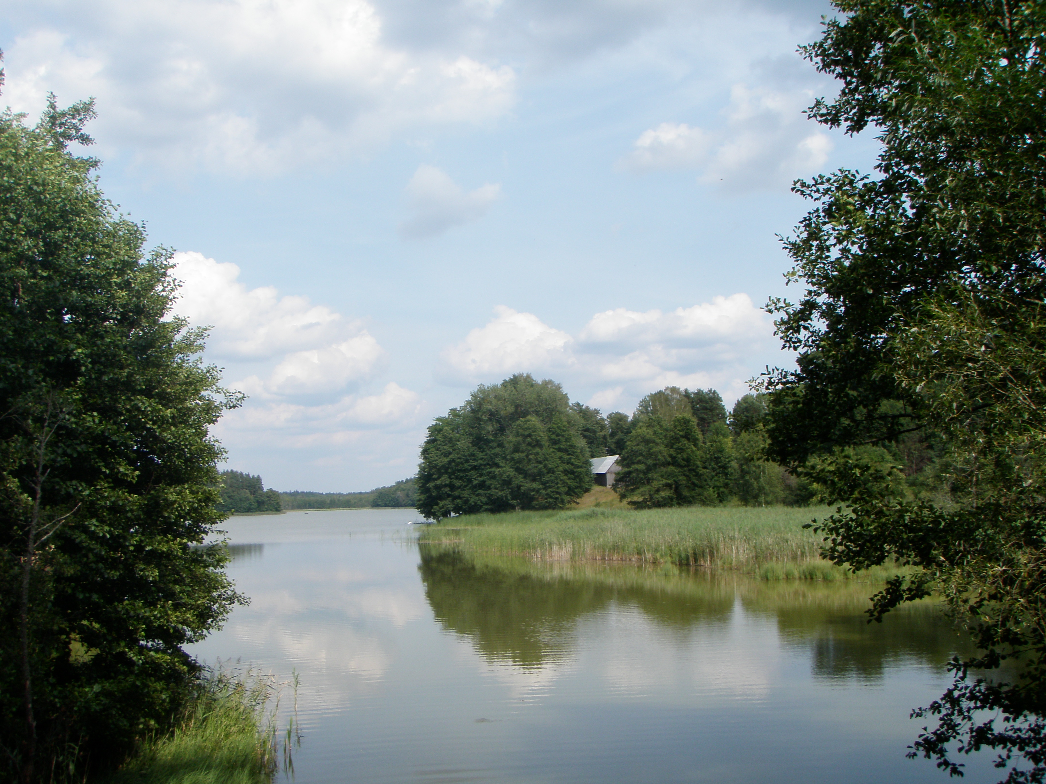 Lake Sajenko in Augustów, Poland.